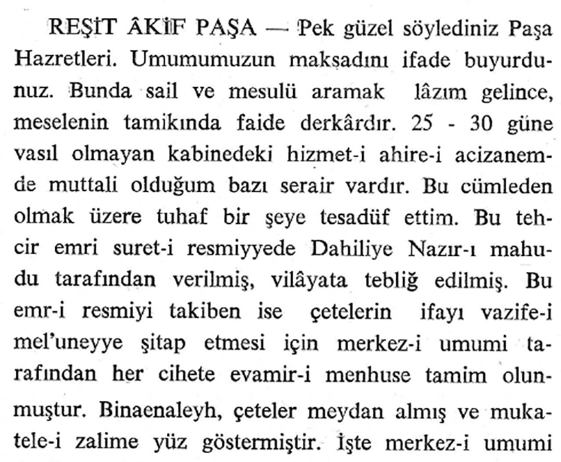 Reşid Akif Paşa is known for providing important testimony during a session of the Ottoman parliament on November 21, 1918. The speech had outlined the process in which official statements made use of vague terminology when ordering deportation only to be clarified by special orders ordering "massacres" sent directly from the Committee of Union and Progress headquarters and oftentimes the residence of Talat Pasha himself. His testimony is at follows: "During my few days of service in this government I've learned of a few secrets and have come across something interesting. The deportation order was issued through official channels by the minister of the interior and sent to the provinces. Following this order the [CUP] Central Committee circulated its own ominous order to all parties to allow the gangs to carry out their wretched task. Thus the gangs were in the field, ready for their atrocious slaughter."